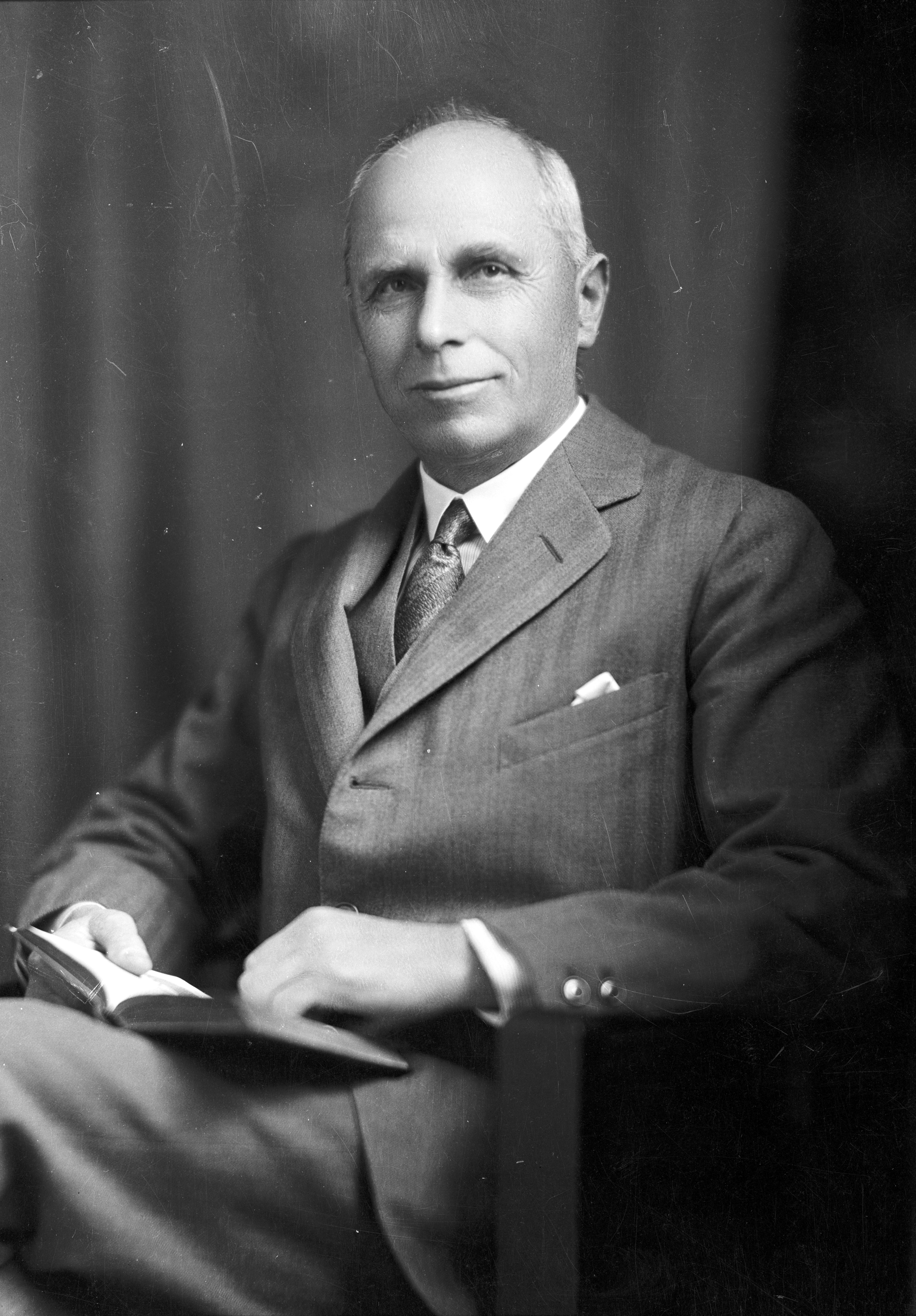 portrait of Sir William Hunt seated in a chair